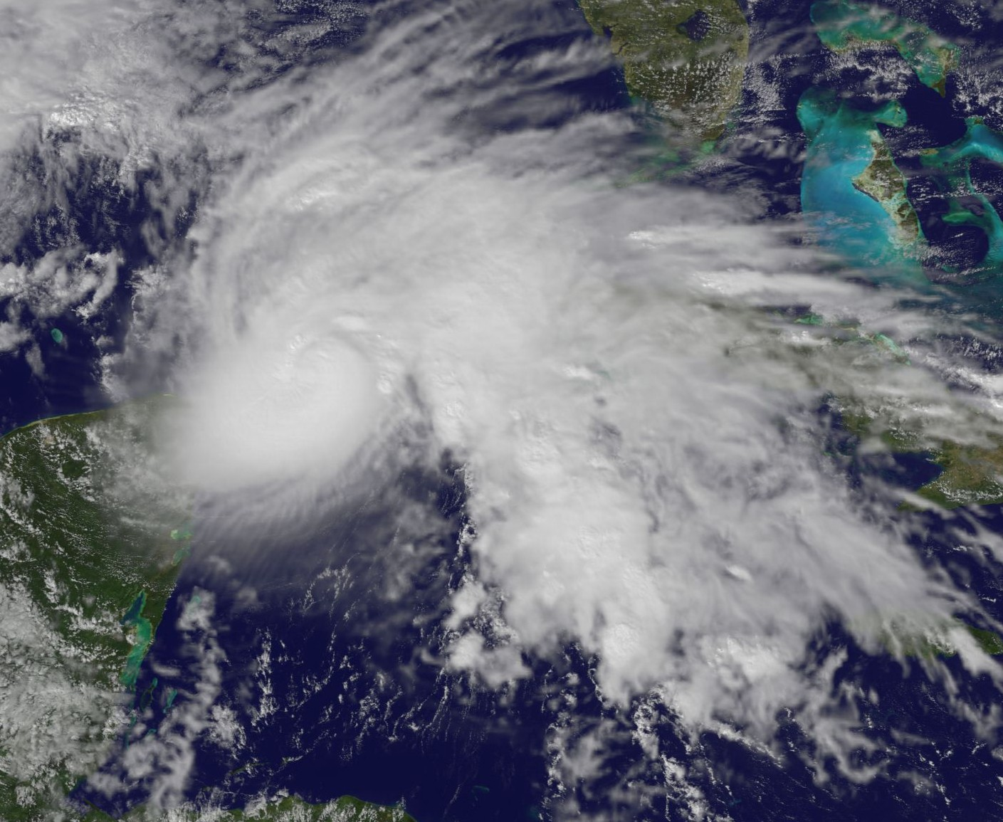 Category Two, Hurricane Ida off the coast of Mexico on November 8, 2009. (Image Credit NOAA/NASA)